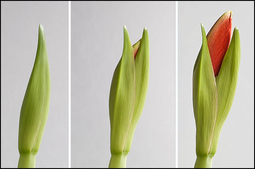 Bulb crop - Amaryllis (Hippeastrum)